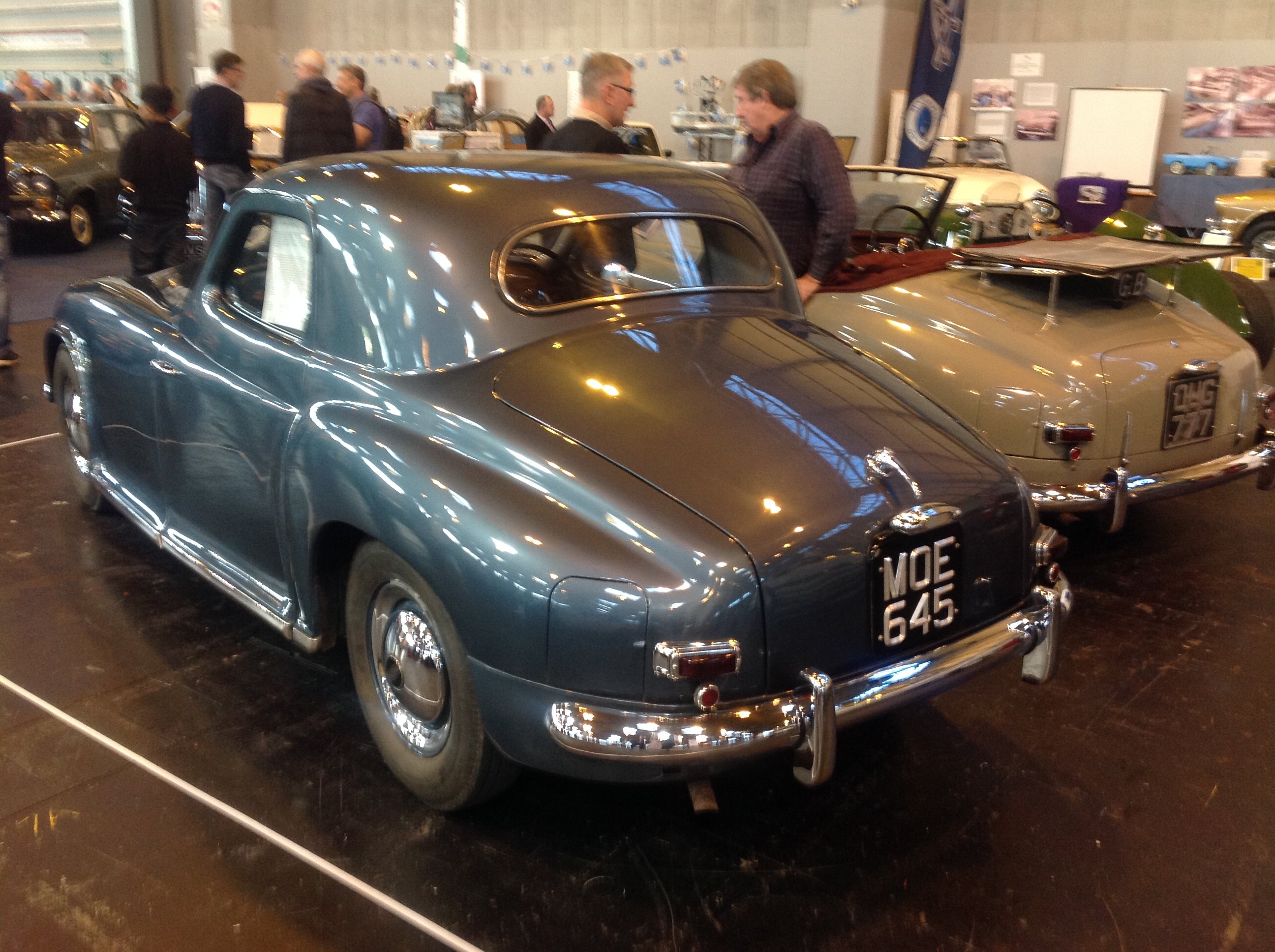 Marauder Coupe (based on Rover P4) (DVLA) first registered 18 April 1952, 2103 cc